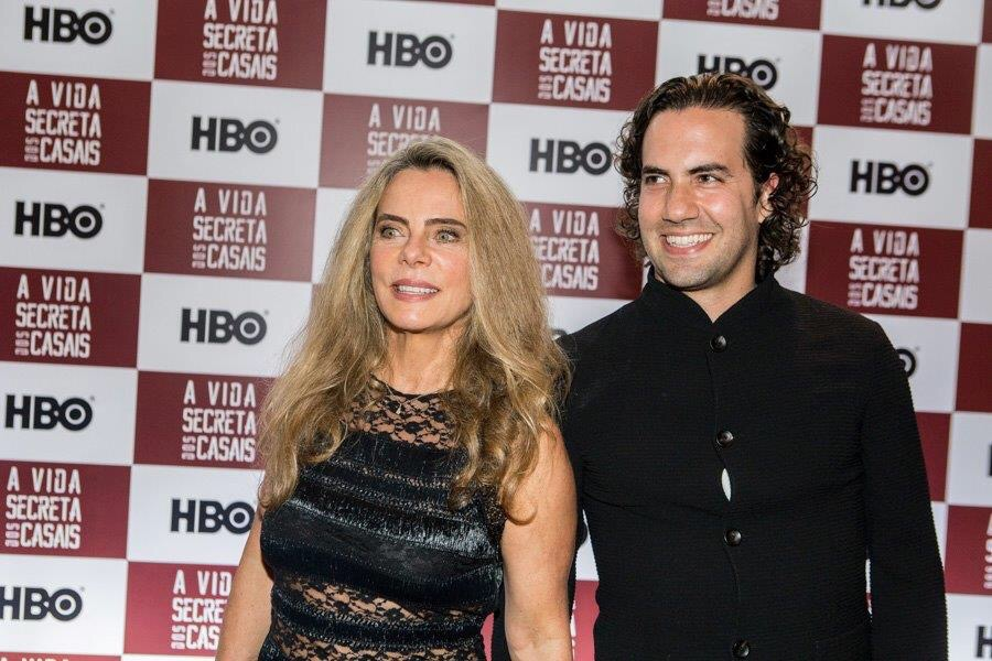 foto divulgação lançamento serie a vida secreta dos casais hbo brasil